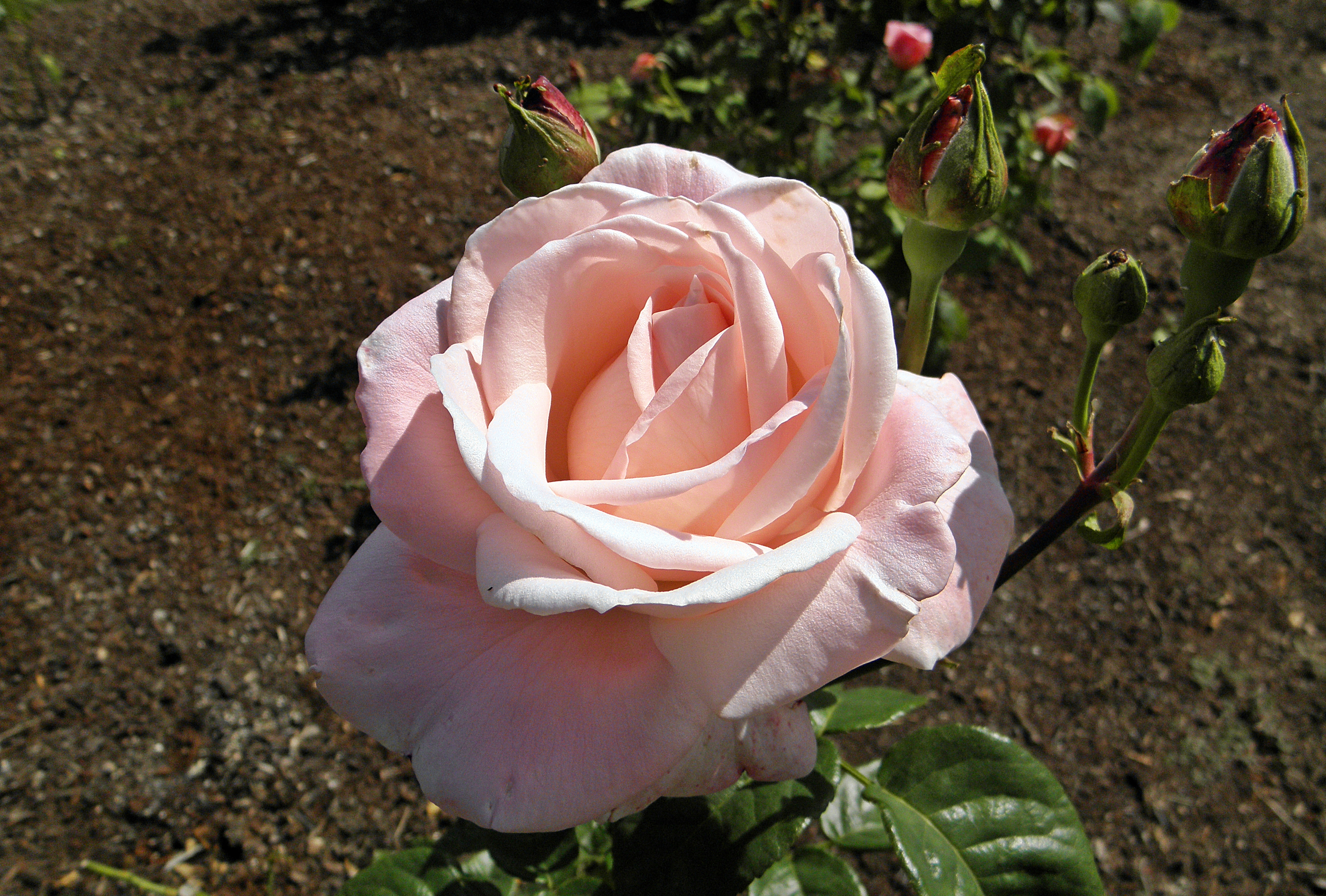 Hybrid Tea Rose 'First Love'; Bush Pasture Park Rose Garden, Salem, Oregon. 97301